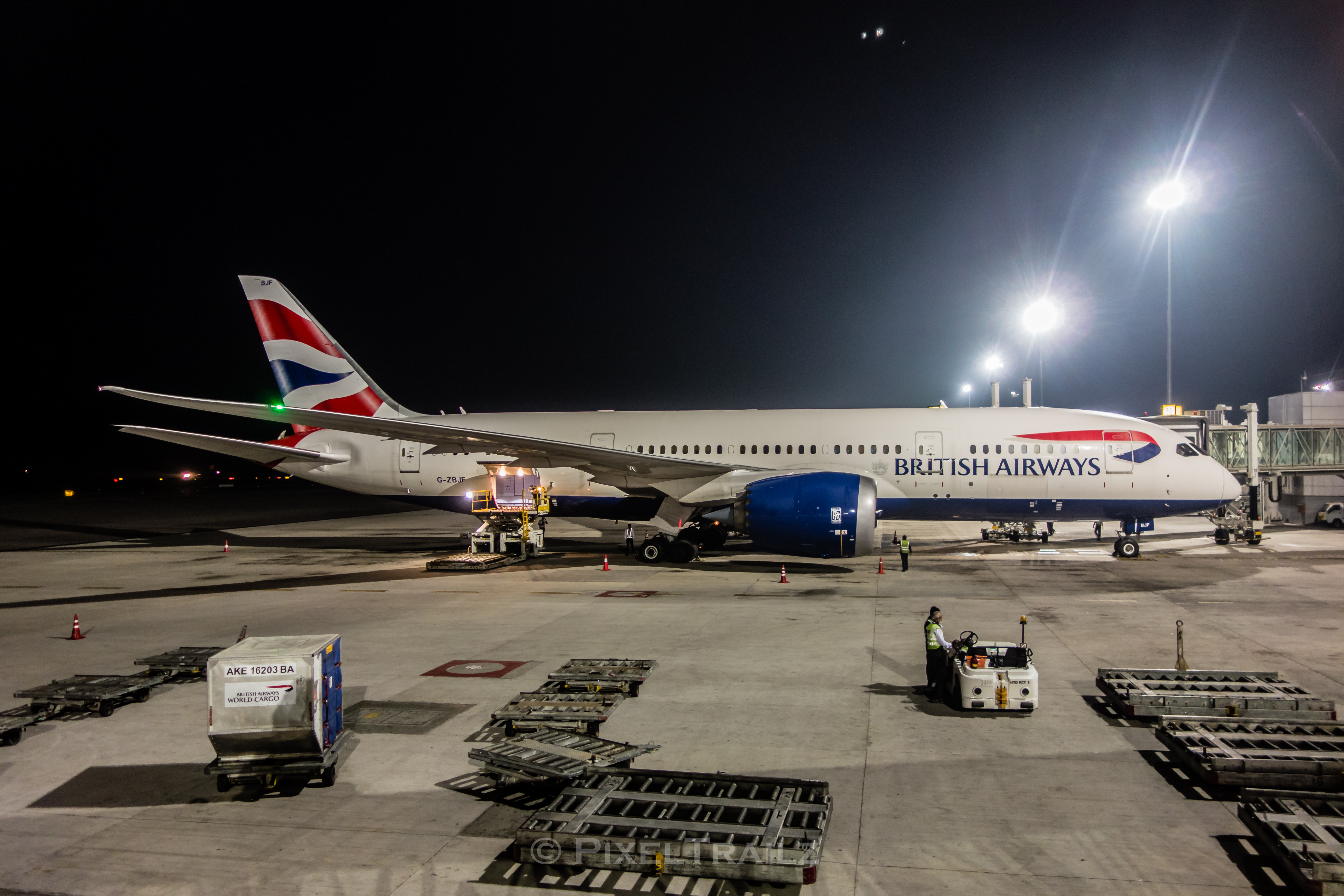 A British Airways 787-8 awaiting departure to London Heathrow from Rajiv Gandhi Int'l Airport, Hyderabad.